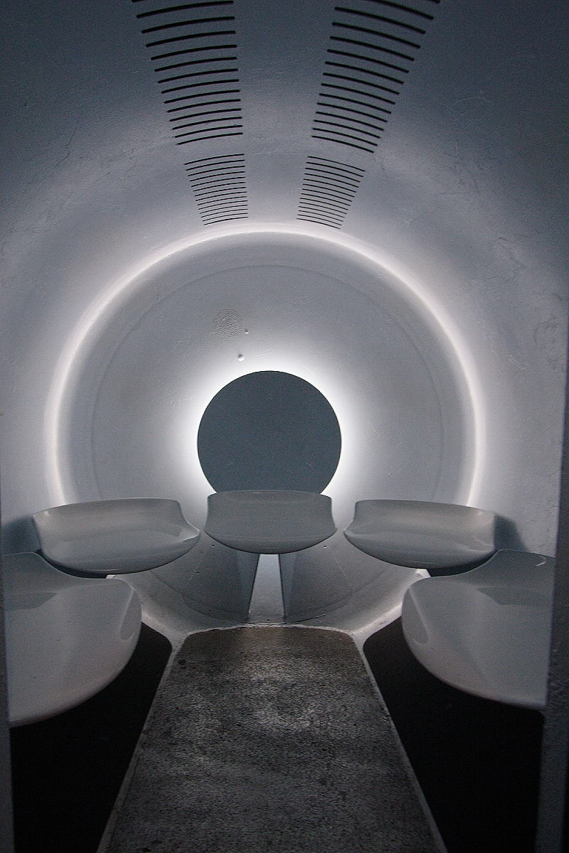 Tram car, Gateway Arch, St. Louis, Missouri